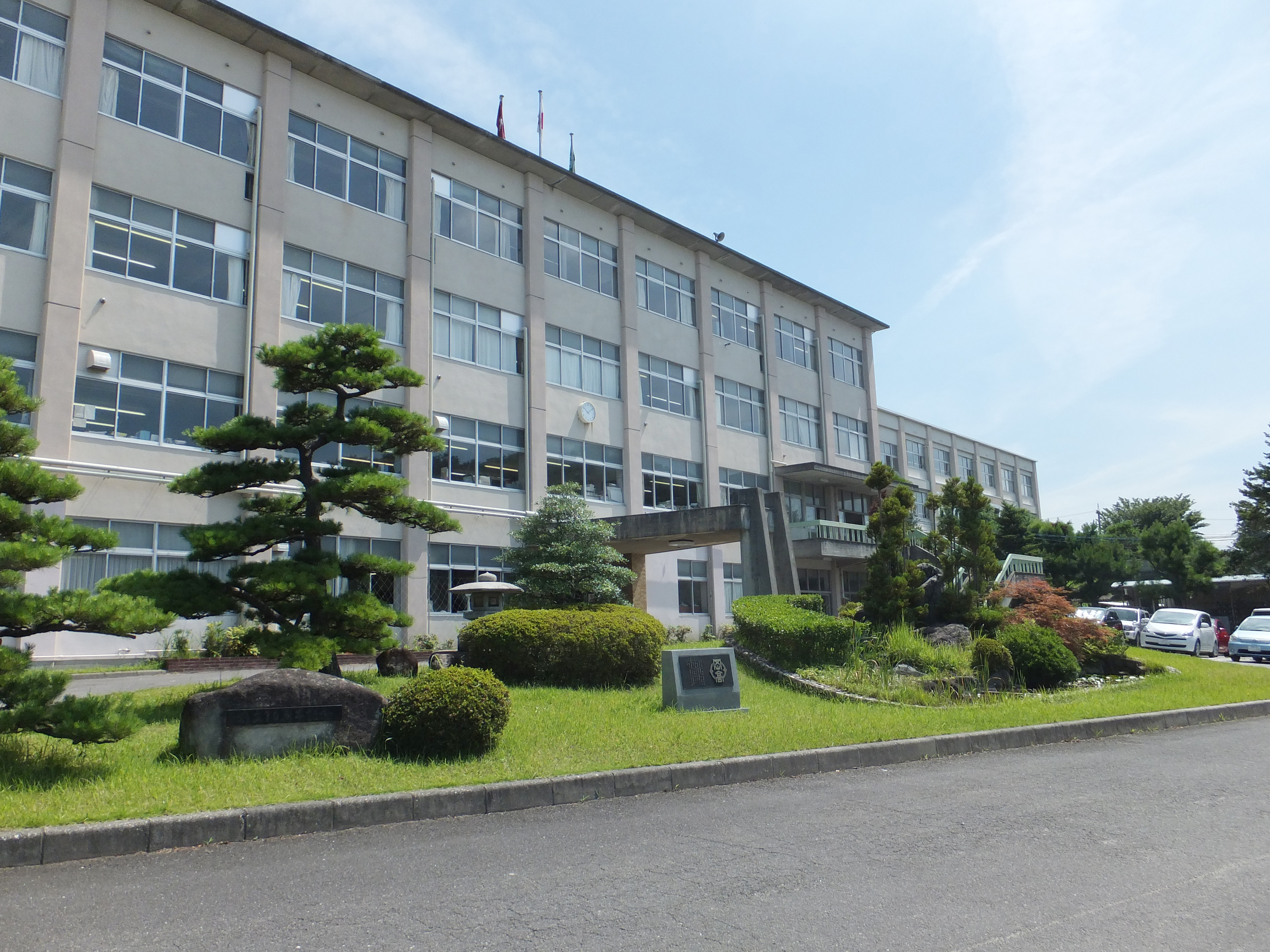 Aichi Prefectural Okazaki Kita High School (愛知県立岡崎北高等学校), located at 17-1, Ishigami-cho, Okazaki, Aichi, Japan